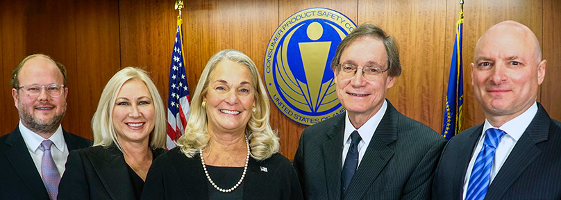 Picture of members of the U.S. Consumer Product Safety Commission in October 2018, from left to right, Commissioner Peter Feldman, Commissioner Dana Baiocco, Acting Chairman Ann Marie Buerkle, Commissioner Robert Adler, and Commissioner Elliot Kaye